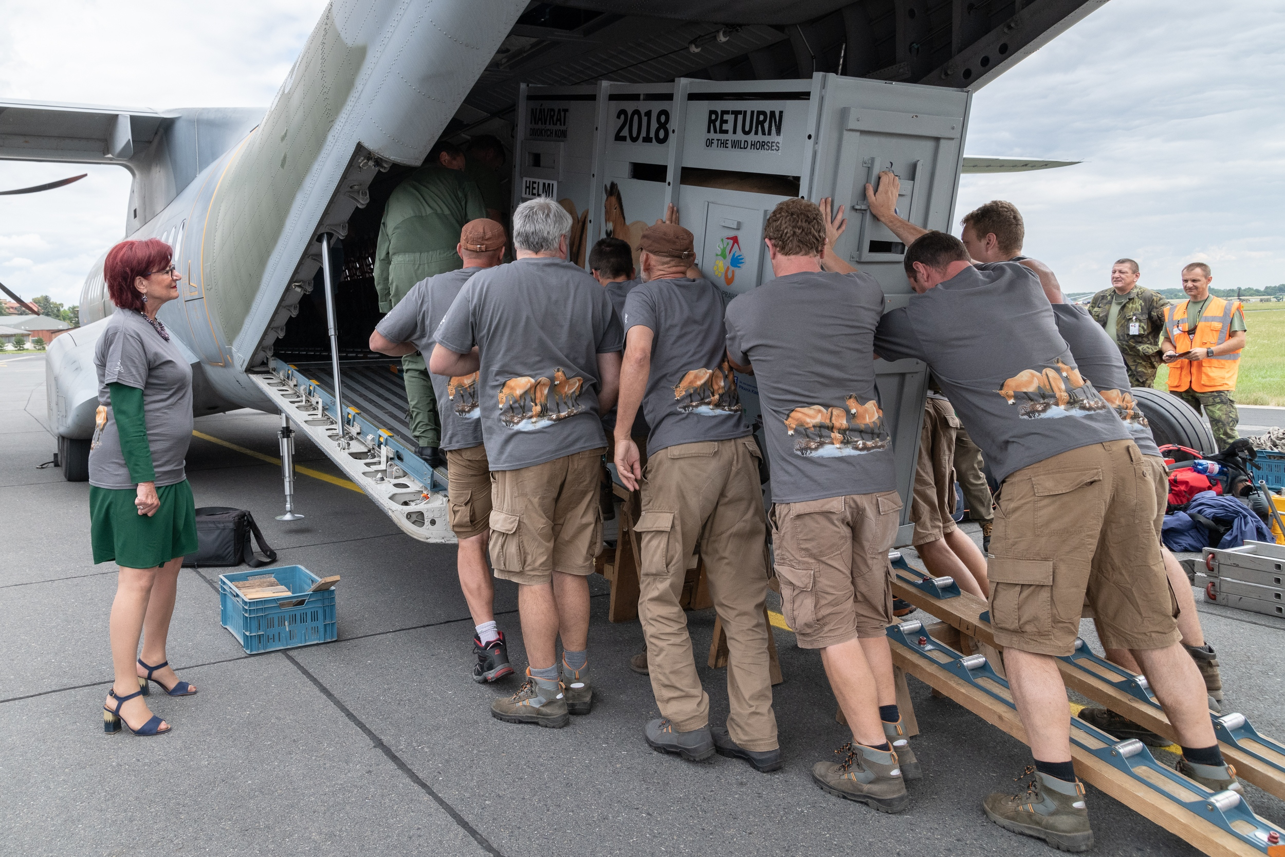 Return of the Wild Horses 2018, Prague-Kbely Airport